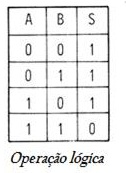 Tabela Verdade Porta NAND